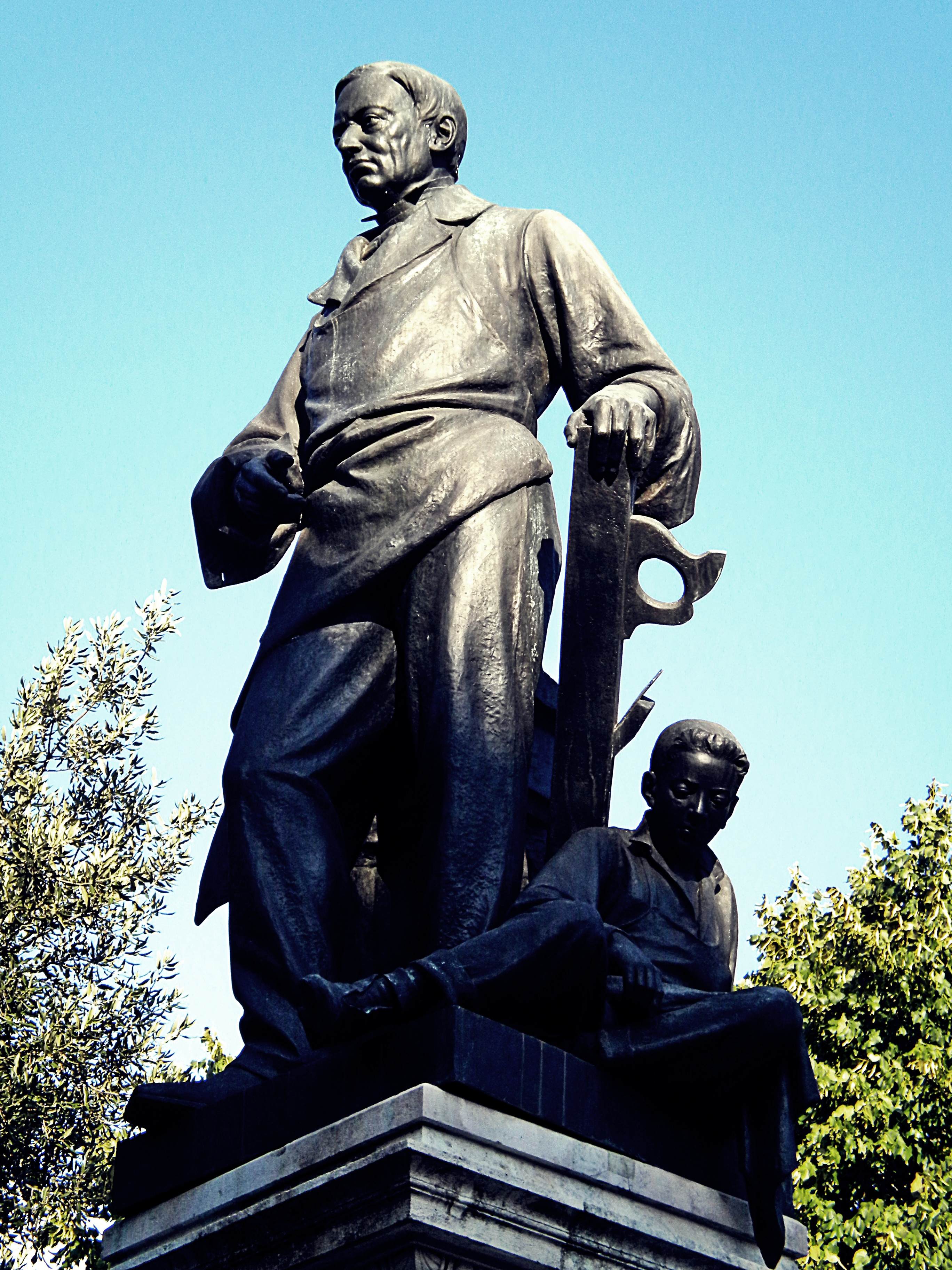 monument